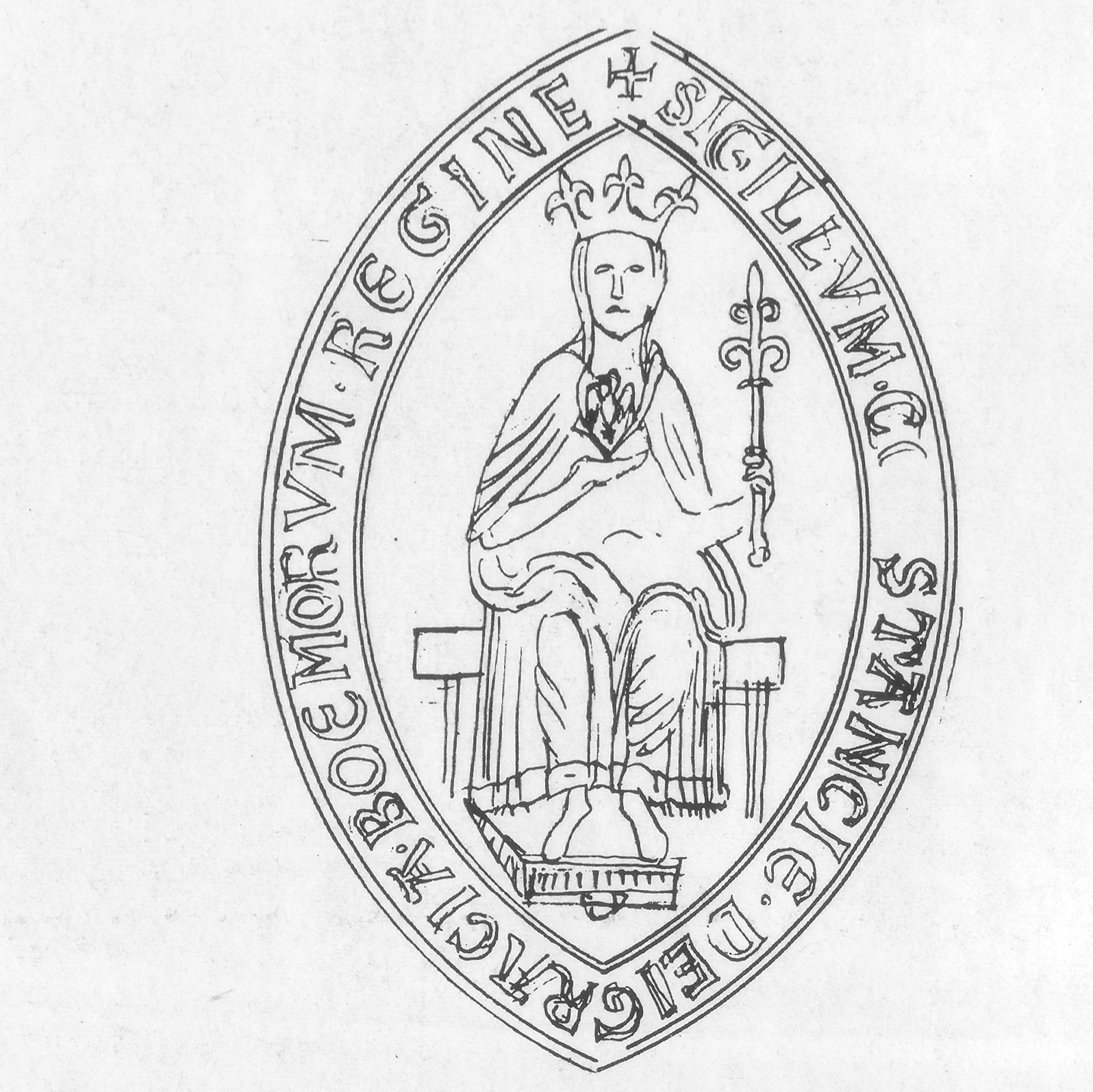 Konstancia of Hungary